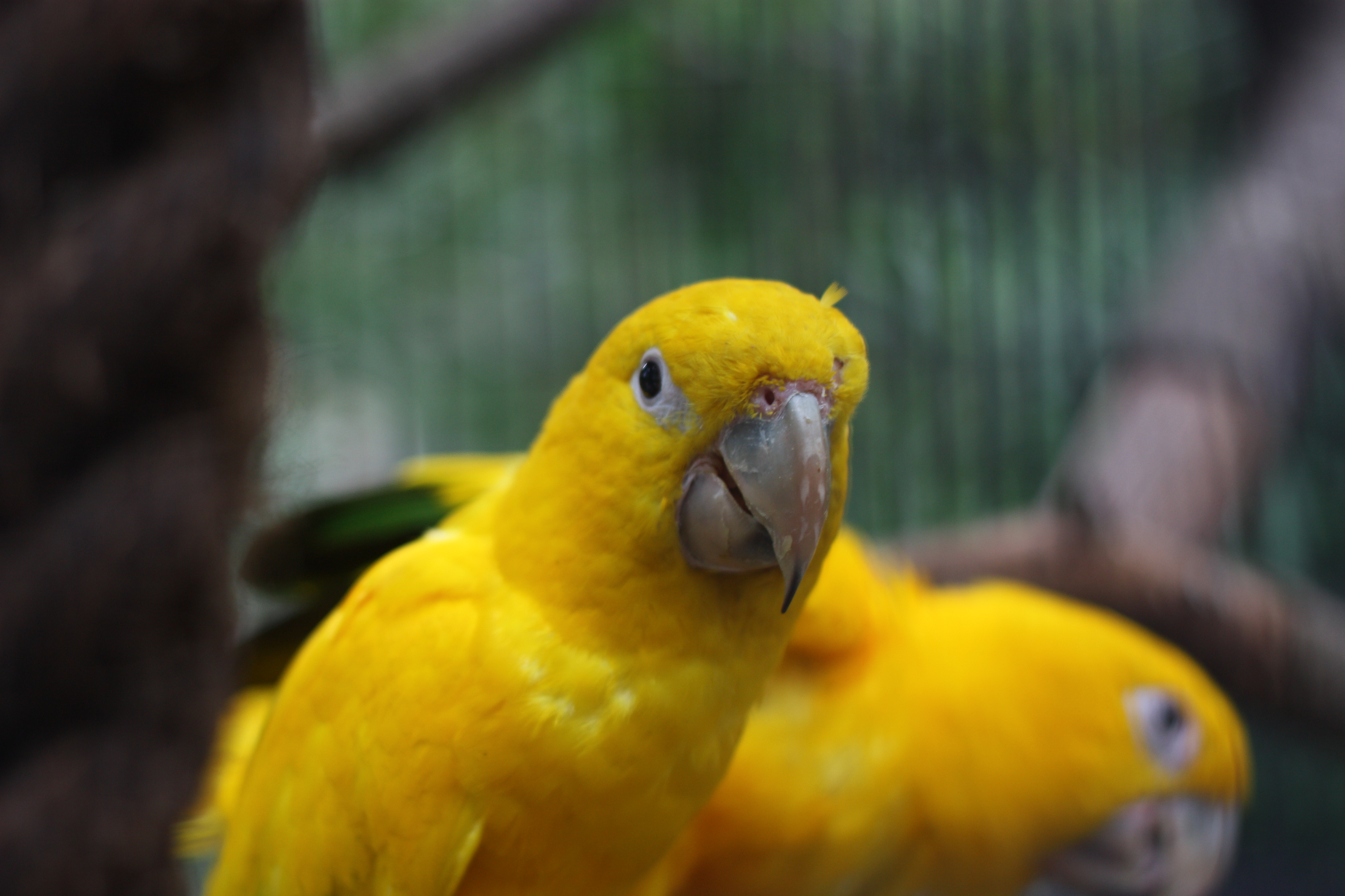 Golden Conure (Guaruba guarouba) at Busch Gardens, Florida, USA.